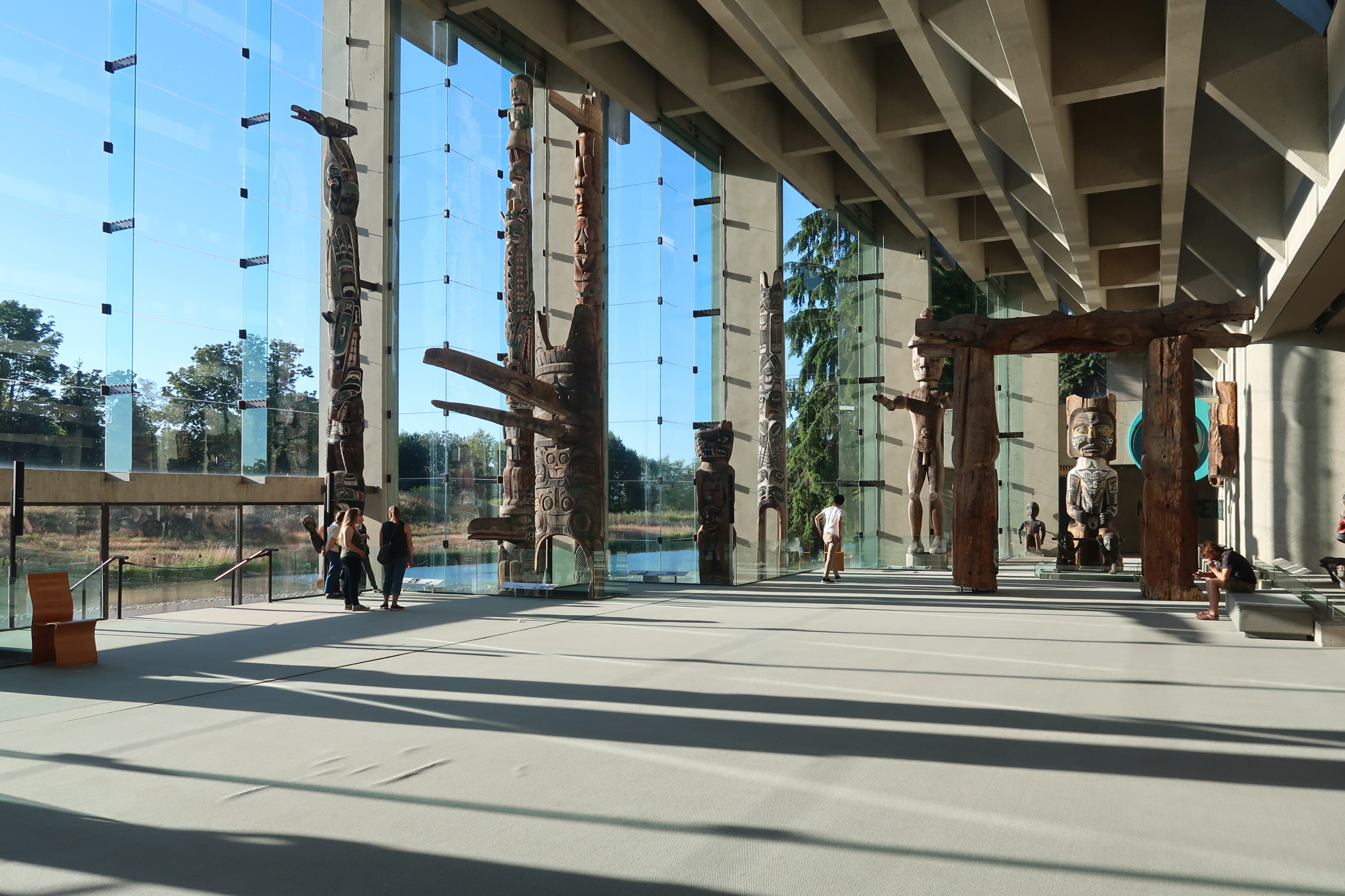 UBC Museum of Anthropology Great Hall